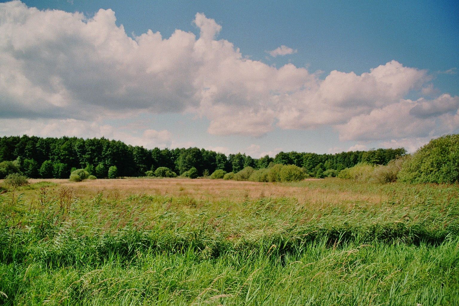 Nature reserve Heiliges Meer-Heupen in Recke-Obersteinbeck, Kreis Steinfurt, North Rhine-Westphalia, [Germany].